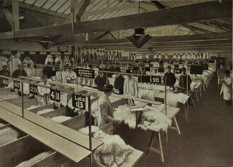 Edward Barber & Son, London: "The Story of a Hundred Years 1928-1927". Merchants of bristles, horse and other raw hair, furs and skins. China Skins on Show for Public Auction, 1899.